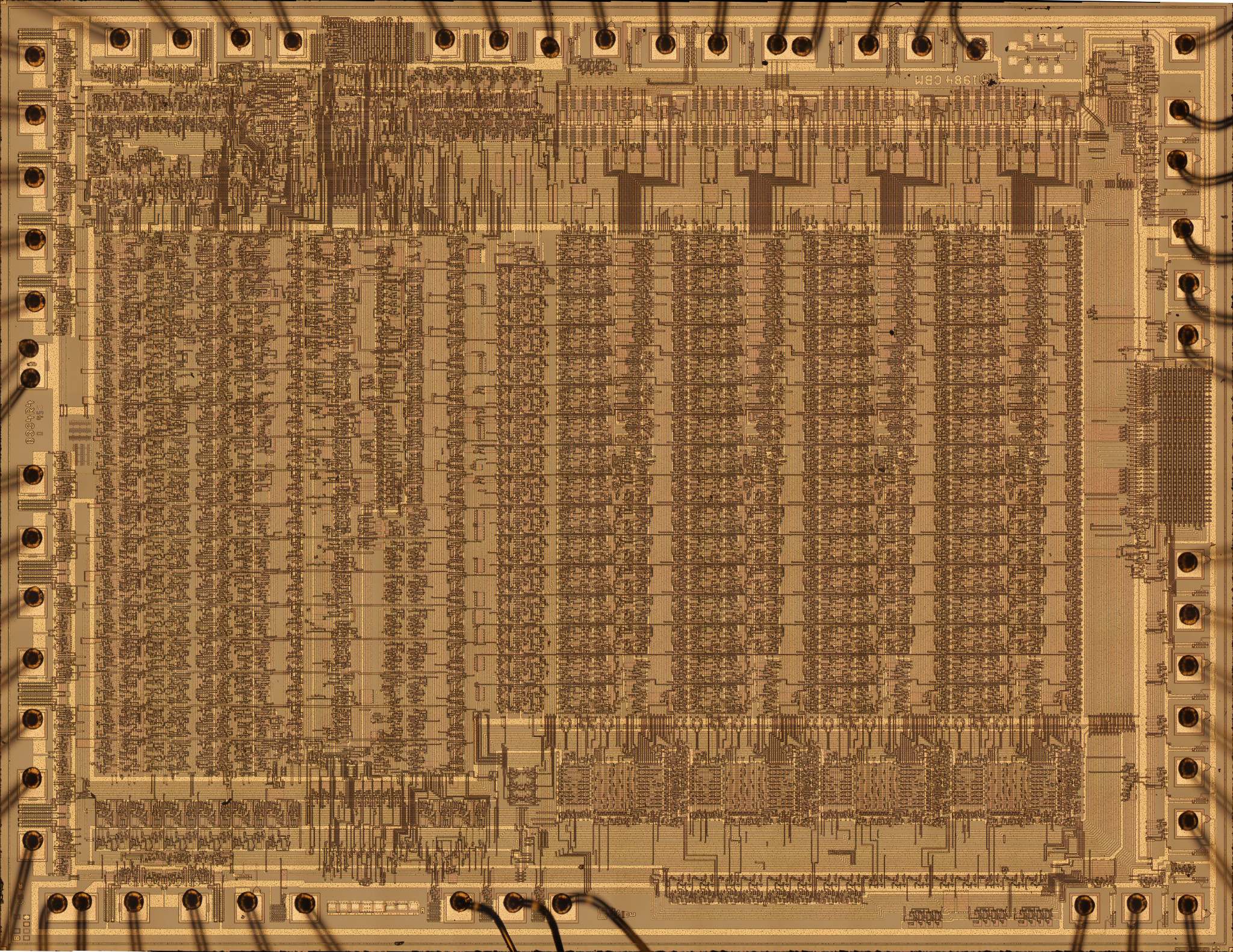 CBM 8364R4 top metal die shot - Amiga Paula chip